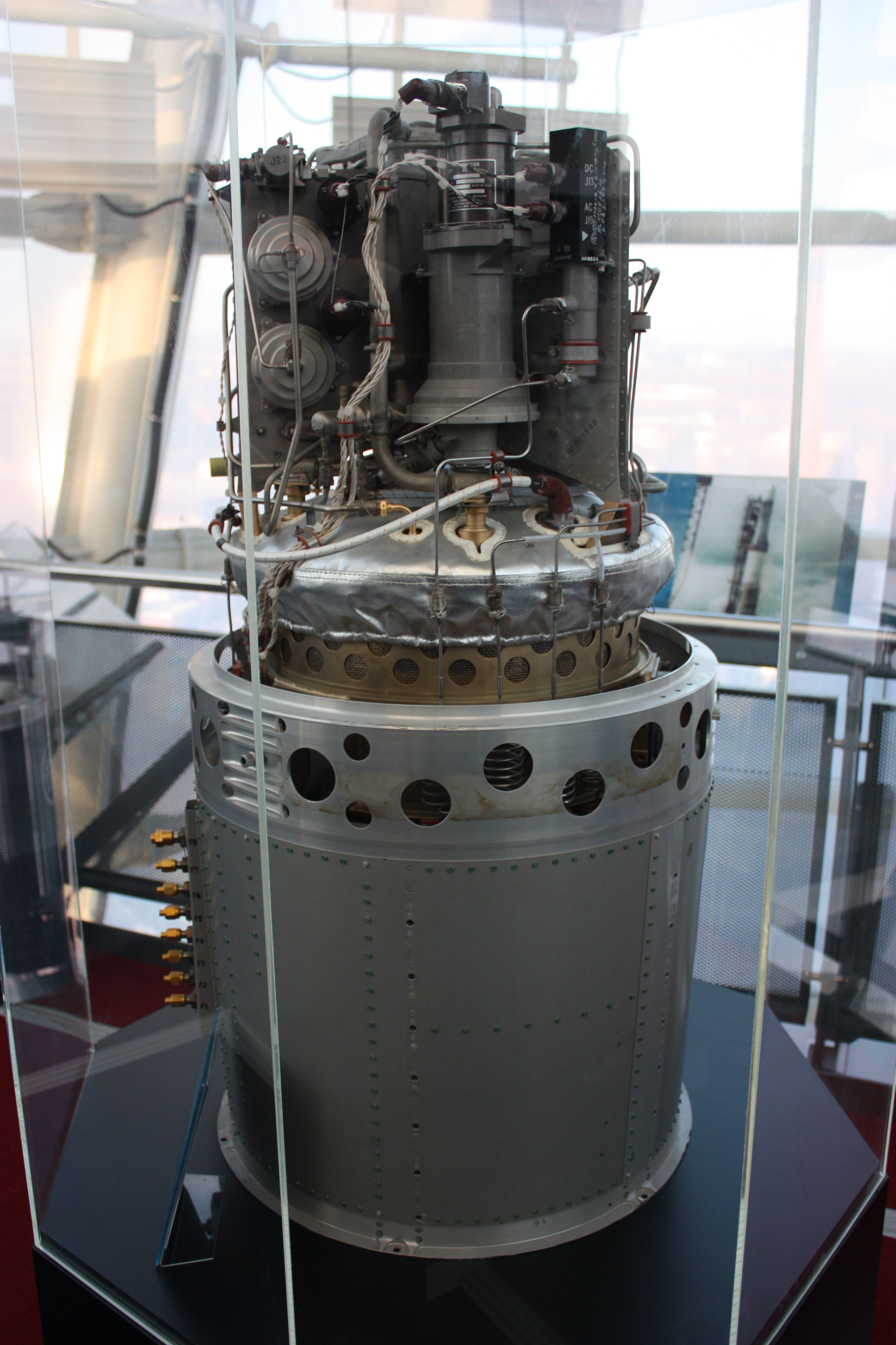 A fuel cell, as used in the Apollo spacecraft Service Module, seen at the National Space Centre, Leicester.